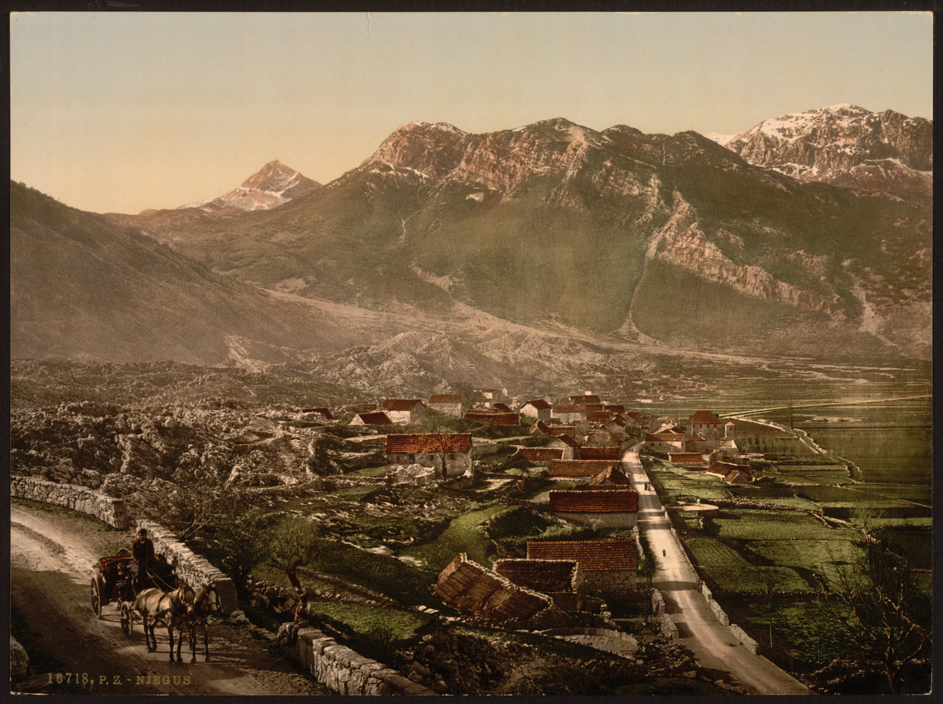 This late-19th century photochrome print is from “Views of Montenegro” in the catalog of the Detroit Publishing Company. It depicts a view from Njegus, characterized by Baedeker’s Austria, Including Hungary, Transylvania, Dalmatia, and Bosnia (1900) as “the ancestral home of the reigning family and the cradle of the Montenegrin wars of independence.” The Detroit Photographic Company was launched as a photographic publishing firm in the late 1890s by Detroit businessman and publisher William A. Livingstone, Jr. and photographer and photo-publisher Edwin H. Husher. They obtained the exclusive rights to use the Swiss "Photochrom" process for converting black-and-white photographs into color images and printing them by photolithography. This process permitted the mass production of color postcards, prints, and albums for sale to the American market. The firm became the Detroit Publishing Company in 1905. Cityscapes; Mountains; Villages